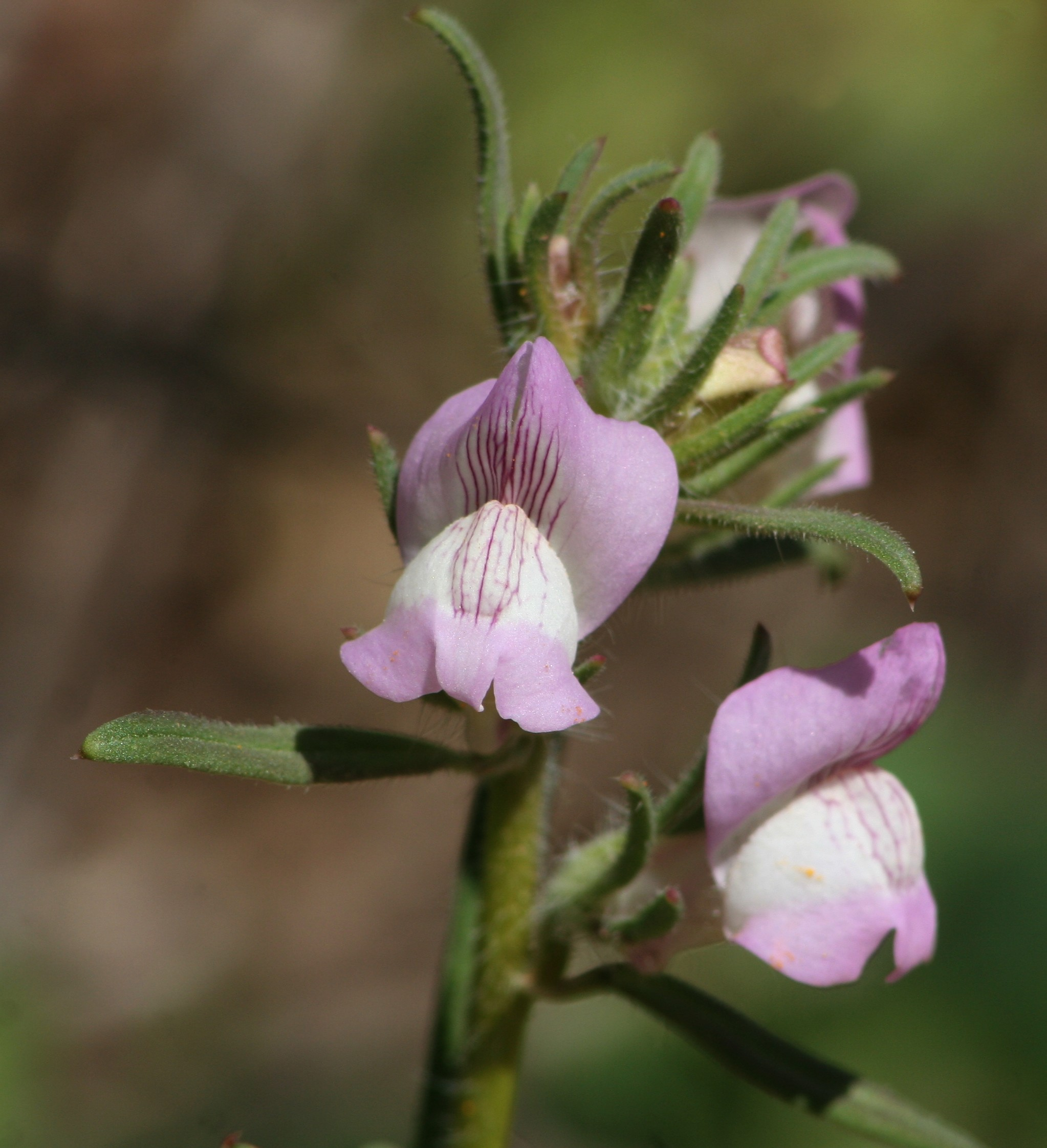 Snapdragon Algarve Portugal